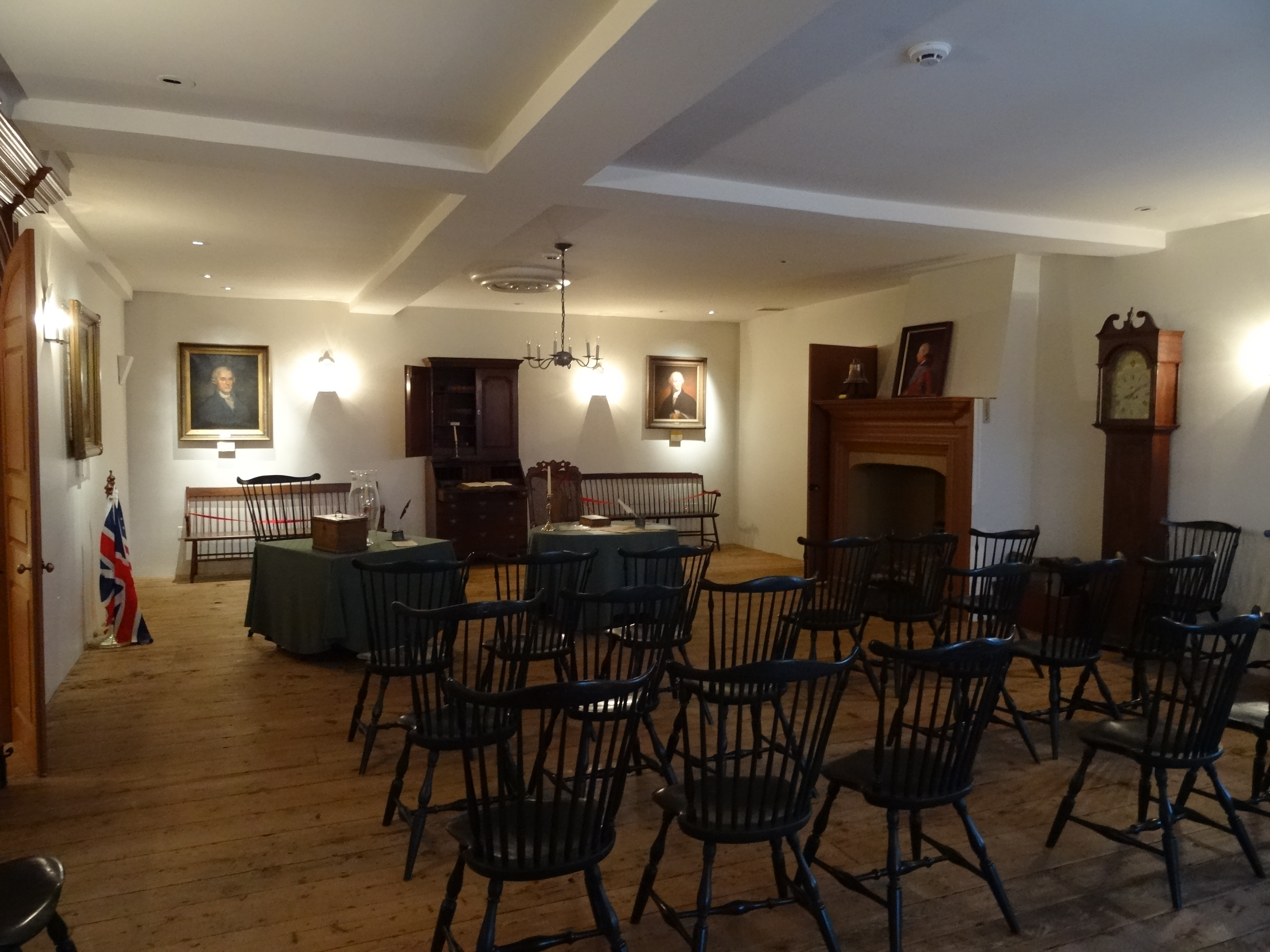 The room in the New Castle Court House where the Delaware Assembly met.